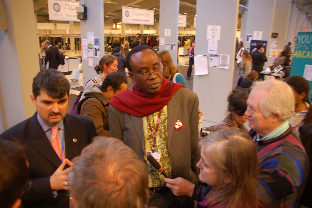 Nnimmo Bassey being led out of Bella Center